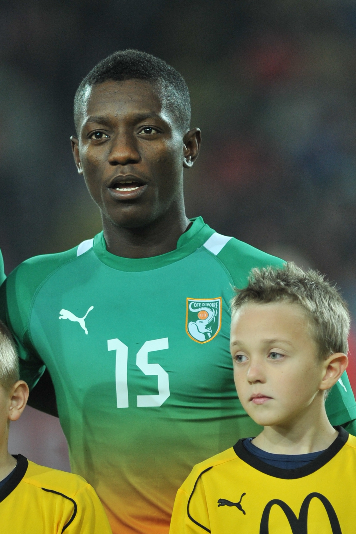 ÖFB freundschaftliches Länderspiel - Österreich vs Elfenbeinküste am 14. November 2012 The making of this work was supported by Wikimedia Austria. For other files made with the support of Wikimedia Austria, please see the category Supported by Wikimedia Österreich. Elfenbeinküste Nr. 15: Max Gradel